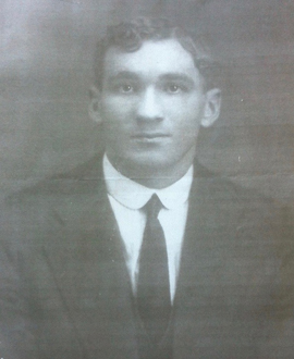 Photograph of Stan Yates in 1918